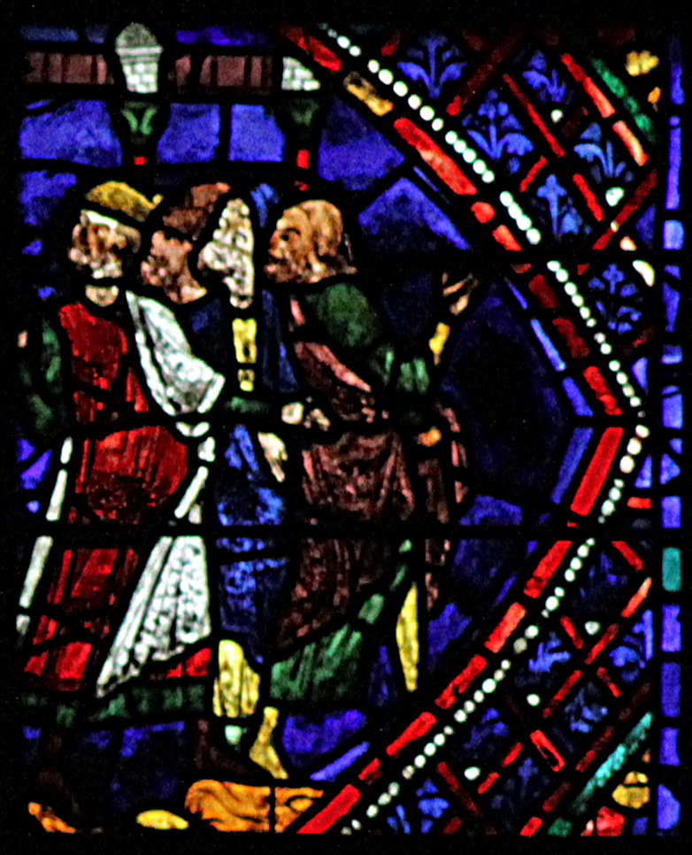 Fragment of File:Chartres 36 -Corrected.jpg - Life of St Apollinaris